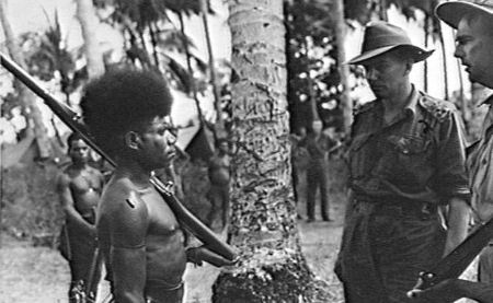 KAIAPIT, NEW GUINEA. 1943-09-26. "Yarawa" (left) of the Royal Papuan Constabulary is congratulated for his feat of single-handedly capturing a Japanese sergeant by Brigadier I. N. Dougherty (centre) and WO2 L. P. Seale of ANGAU (right).